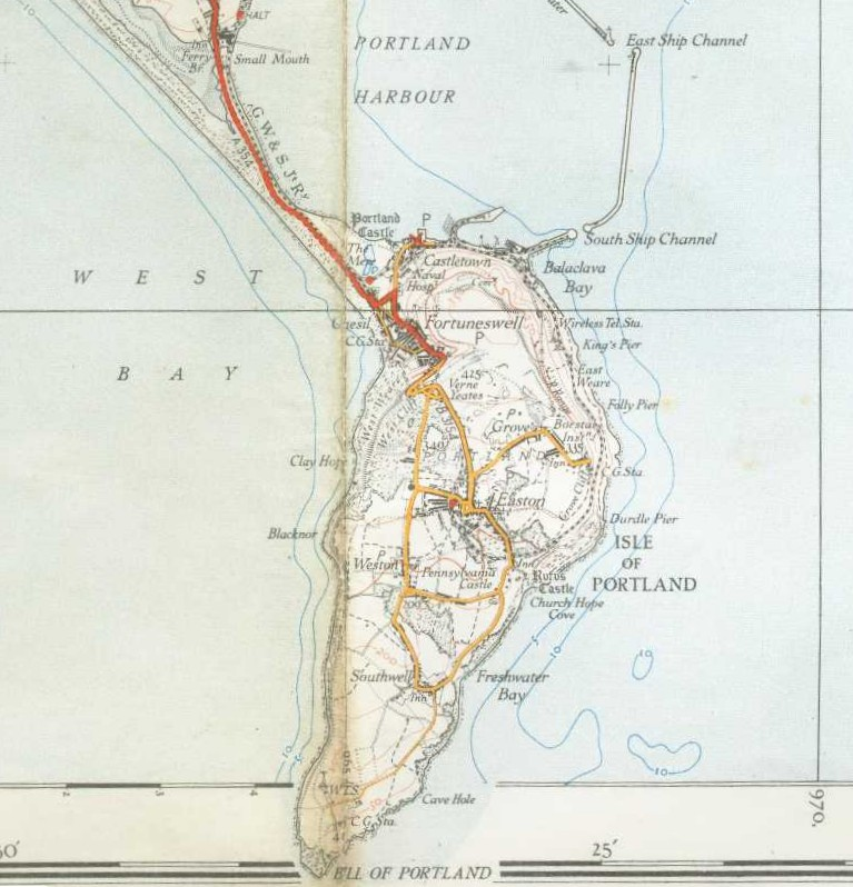 Isle of Portland, reproduced from the 1937 OS map.